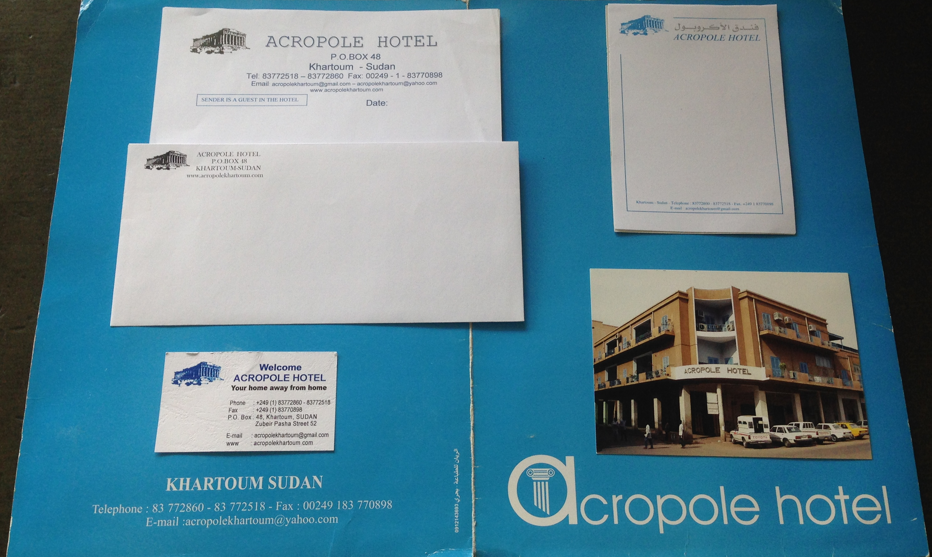 Paper-set of the Acropole Hotel in Khartoum, Sudan